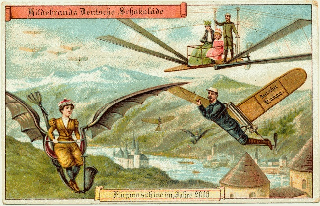 Germany in 2000 year (XXI century). Flugmashines. Germany, Hildebrand Factory chocolade.